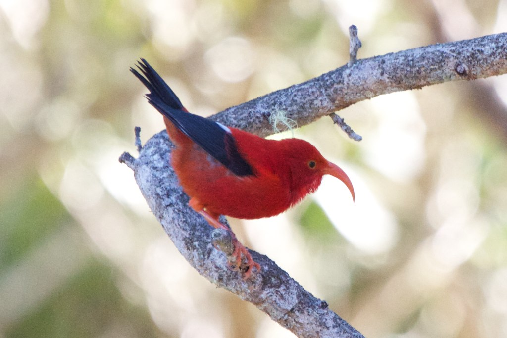 An adult Iiwi in Hawaii.